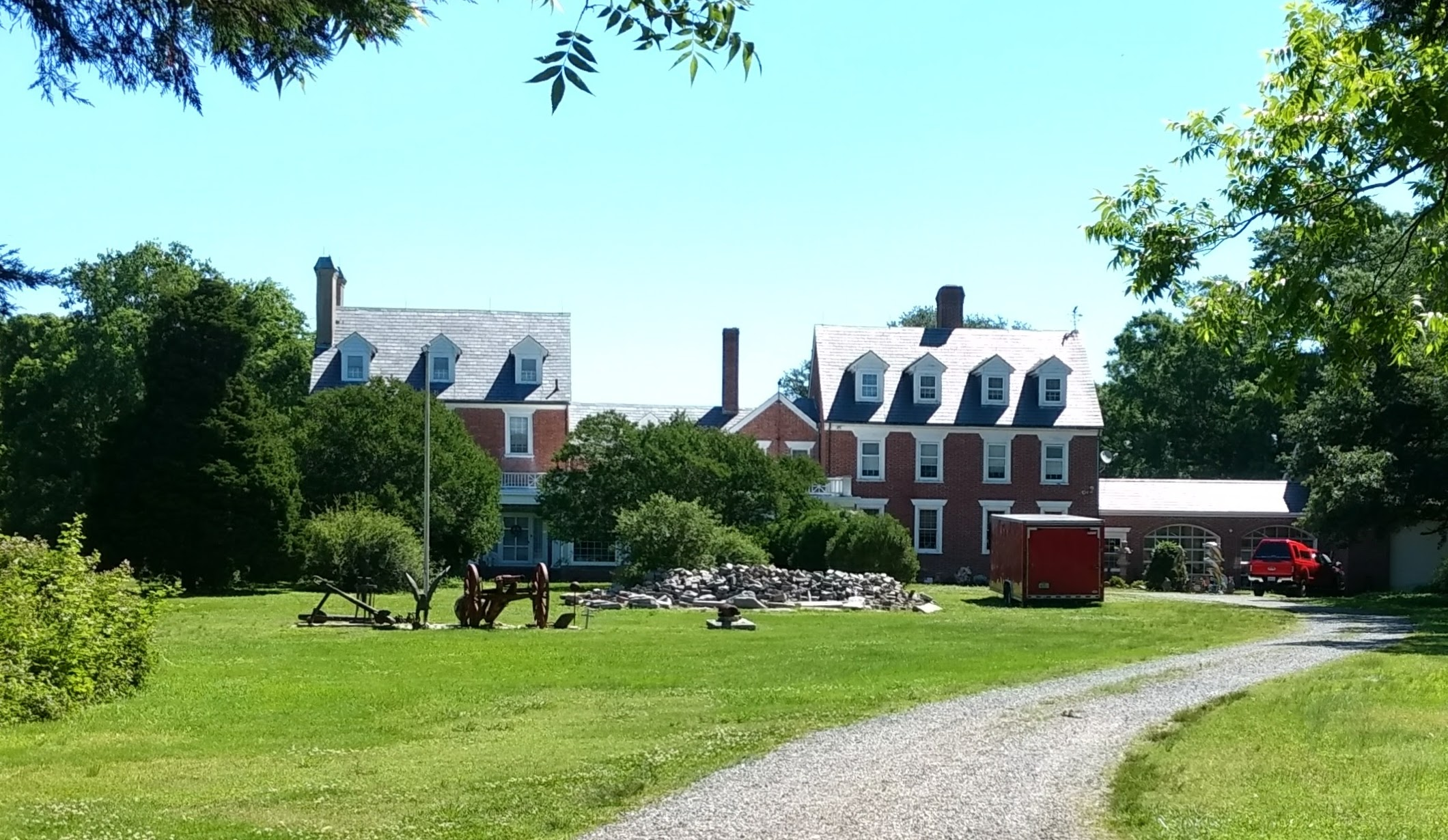 Broad Bay Manor, an historic property in Virginia Beach, Virginia